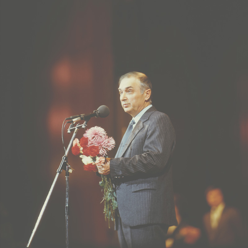 Ion Druta, the Moldavian writer (the end of 80th years).